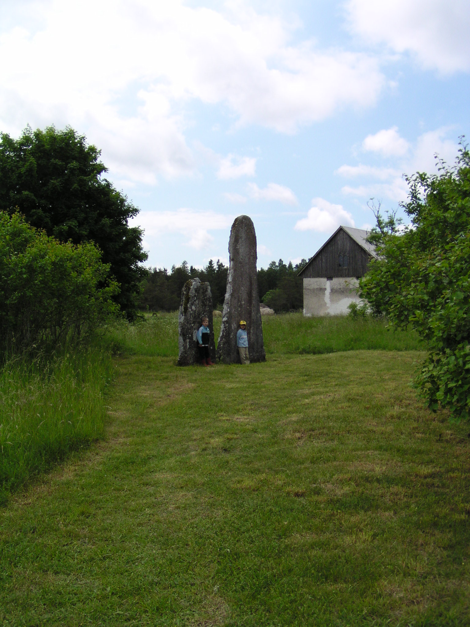 Picture stones on Buttle Änge, Buttle parish, Gotland, Sweden. June 2005. Photo by Nanouschka Myrberg.